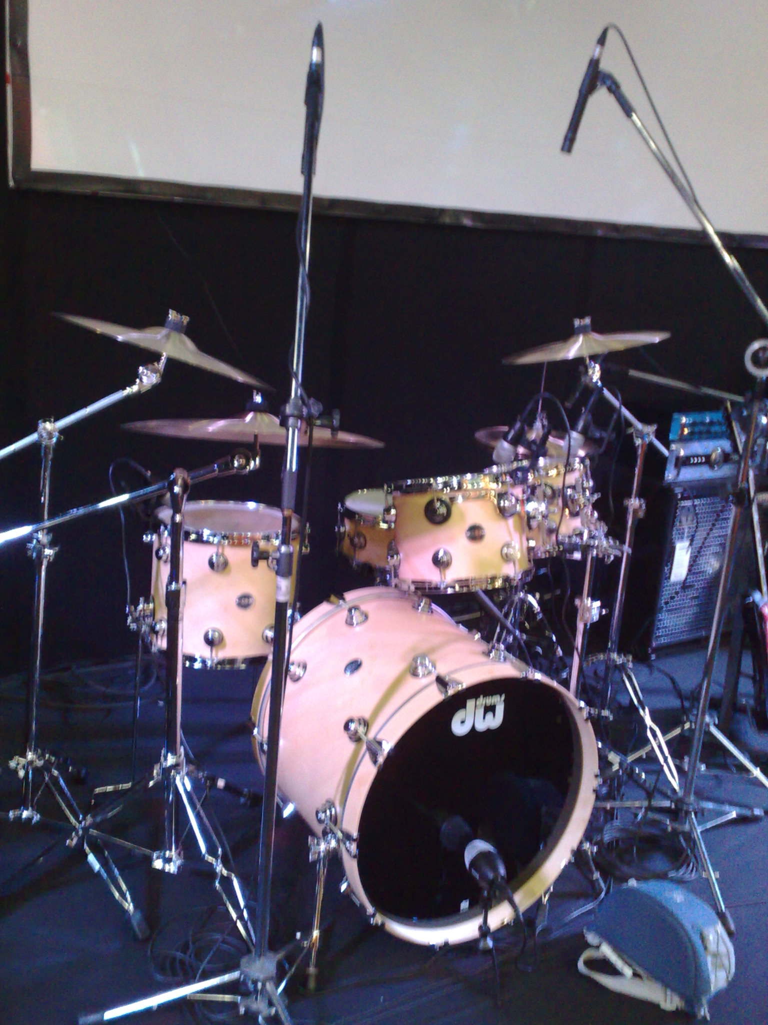 Expomusic 2010 DW (Drum Workshop, Inc.)'s drum-kits